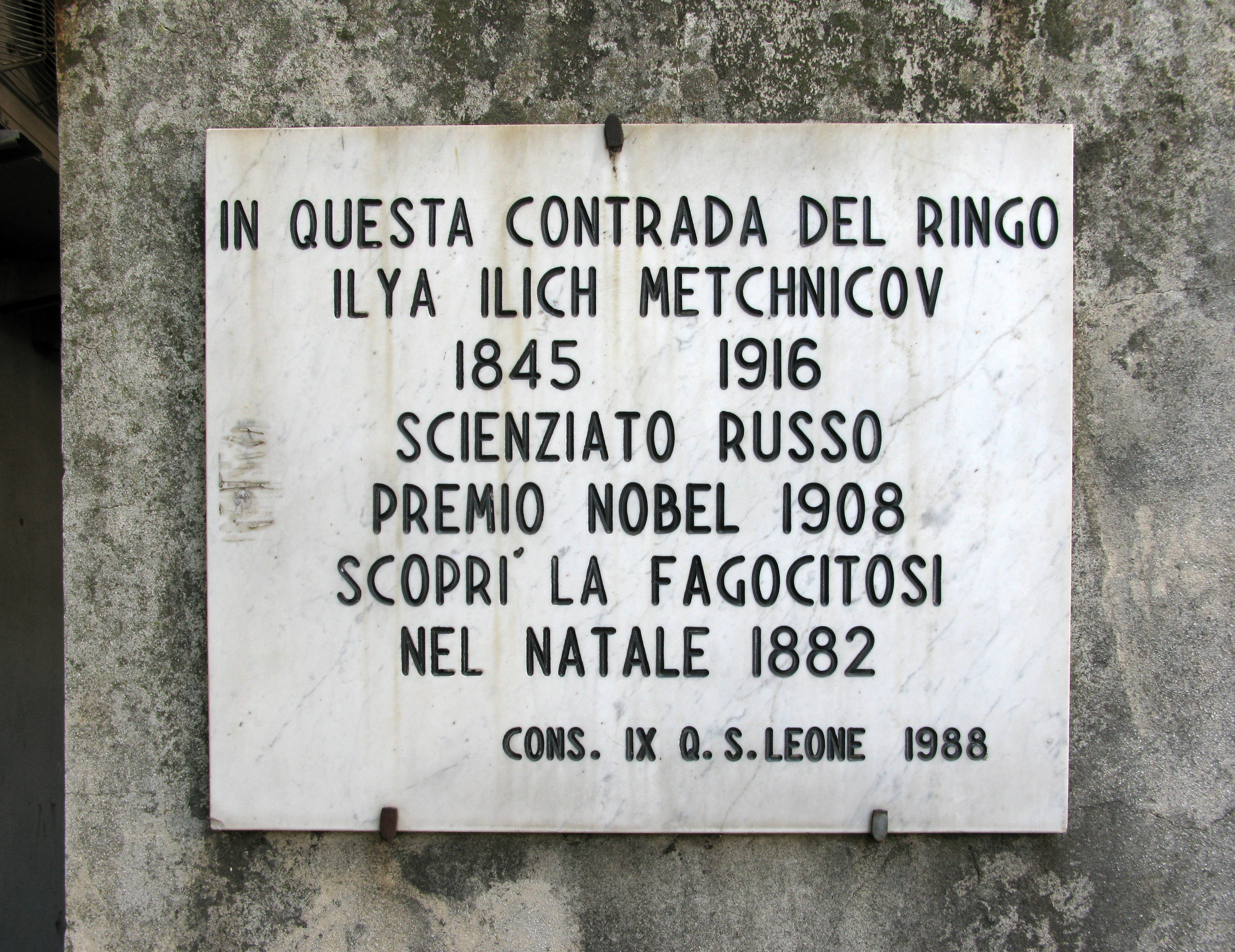 Memorial Plaque for the discovery of Phagocytosis by Ilya Ilyich Mechnikov in 1882 at Messina (Italy)